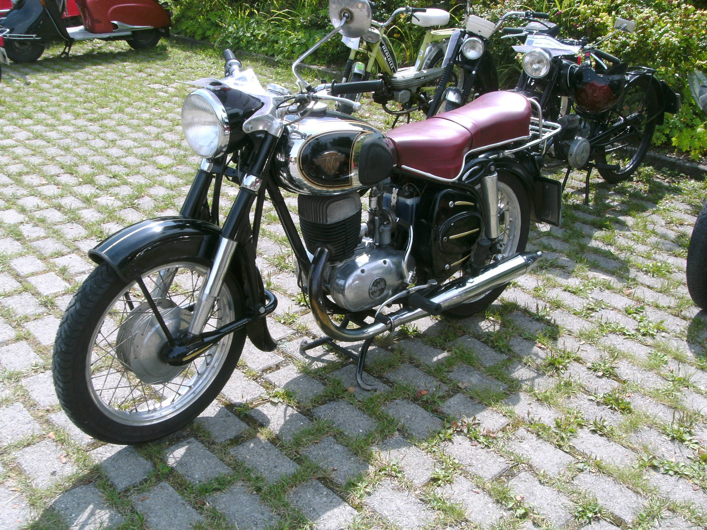 Maico Blizzard, 14 HP, year of manufacturing: 1956